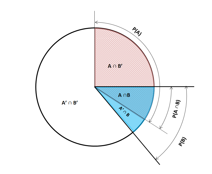 Venn Pie Chart is an area proportional pie chart which serves as an alternative to traditional Venn diagrams describing relations between event in Bayes' theorem. It shows not only relations but ratios between probabilities of events.